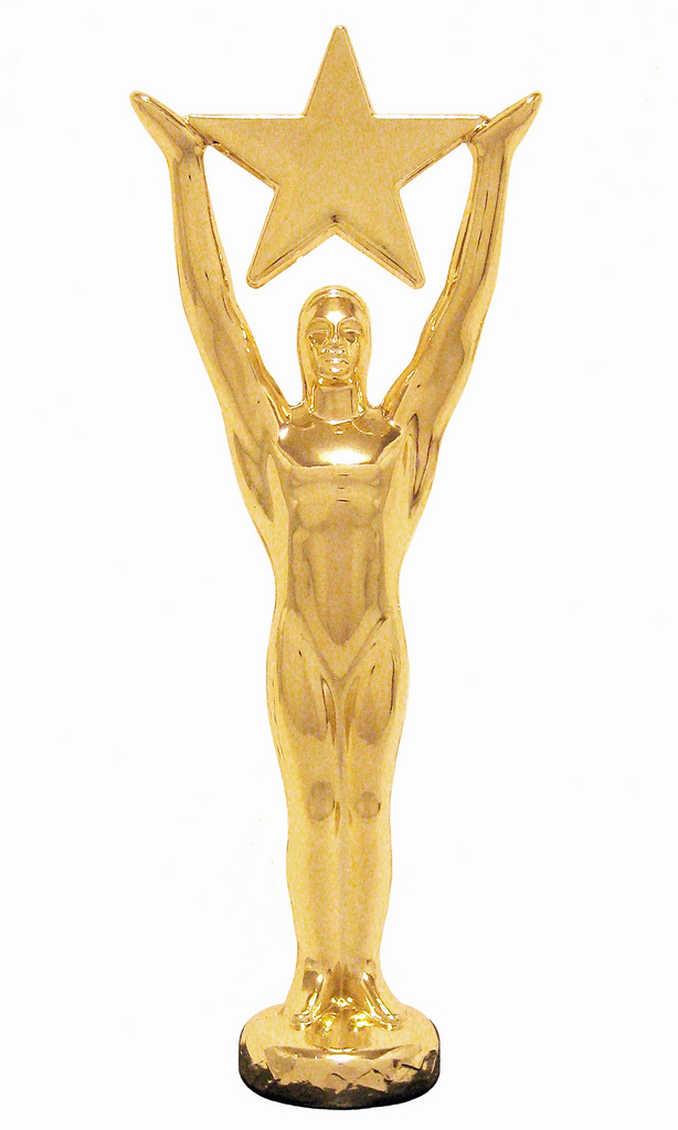 The Young Artist Award statuette (formerly known as the Youth In Film Award).